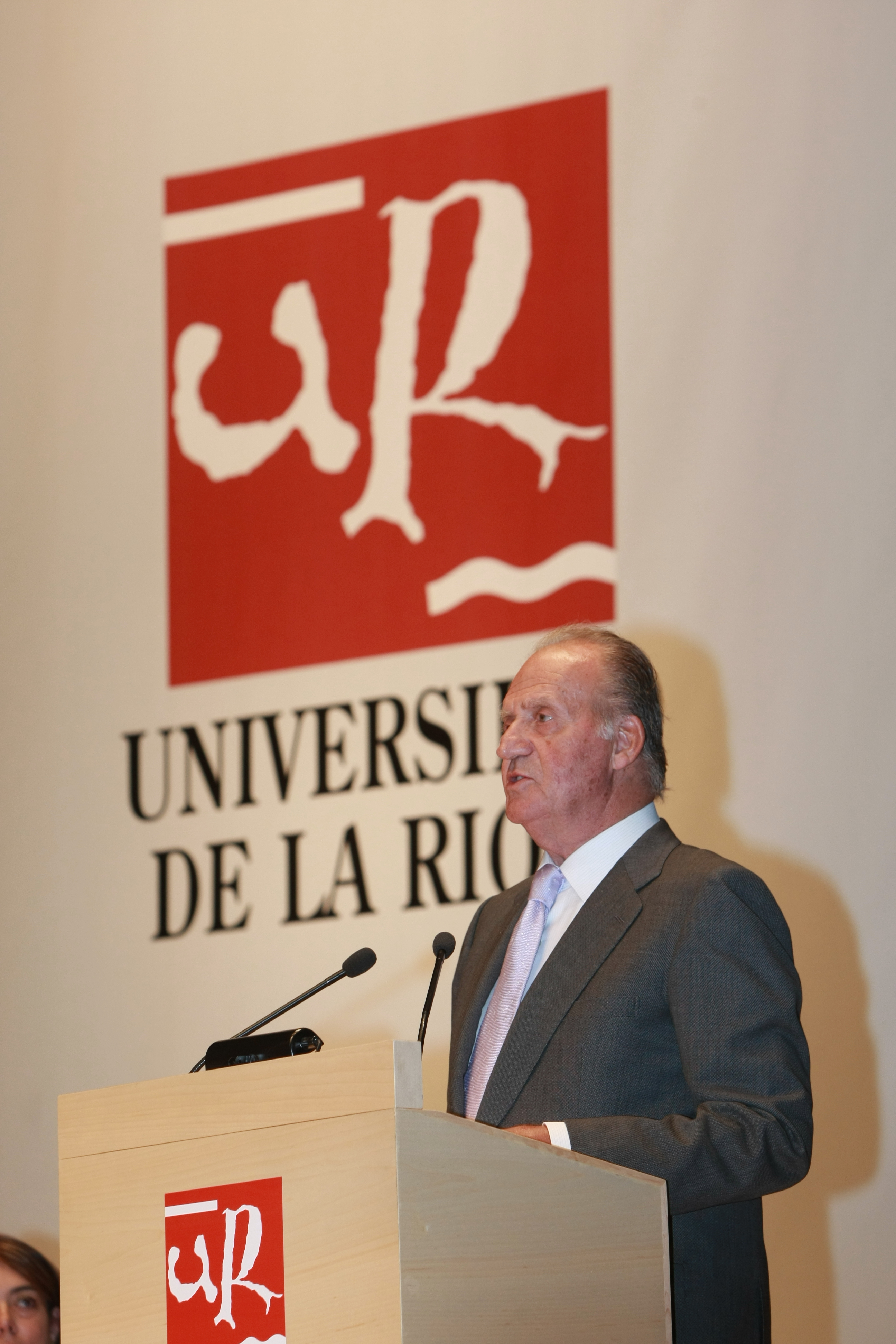 Traducción His Majesty the King of Spain Juan Carlos I, at the opening of Spanish academic year 2008-2009 at the University of La Rioja.